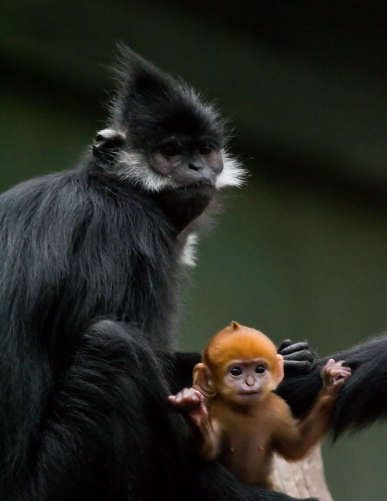 Henry Doorly Zoo, Omaha